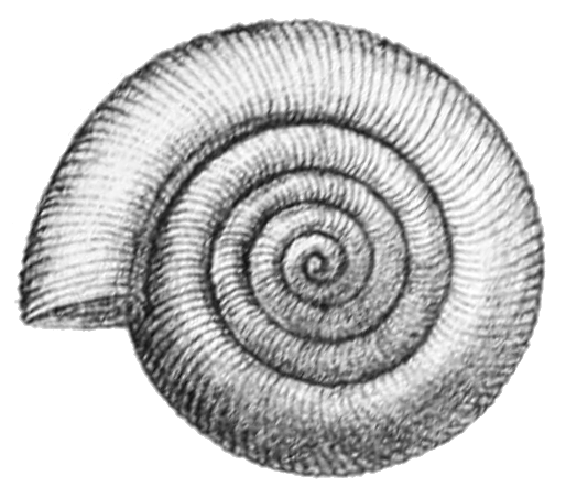 Drawing of apical view of the shell of Limacina helicina.